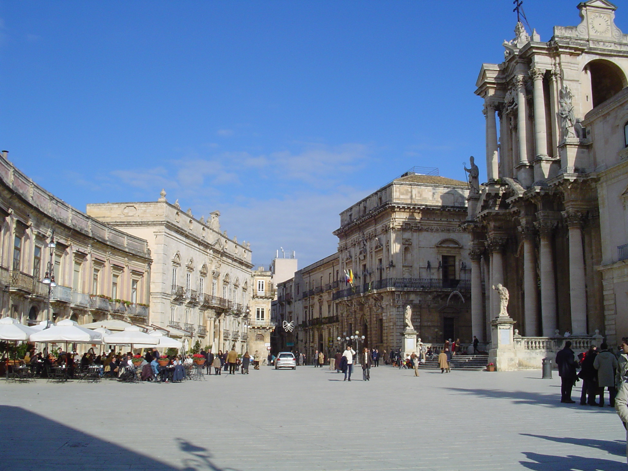 The Piazza Duomo, with the Palazzo Vermexio on the right (Syracuse, Sicily)